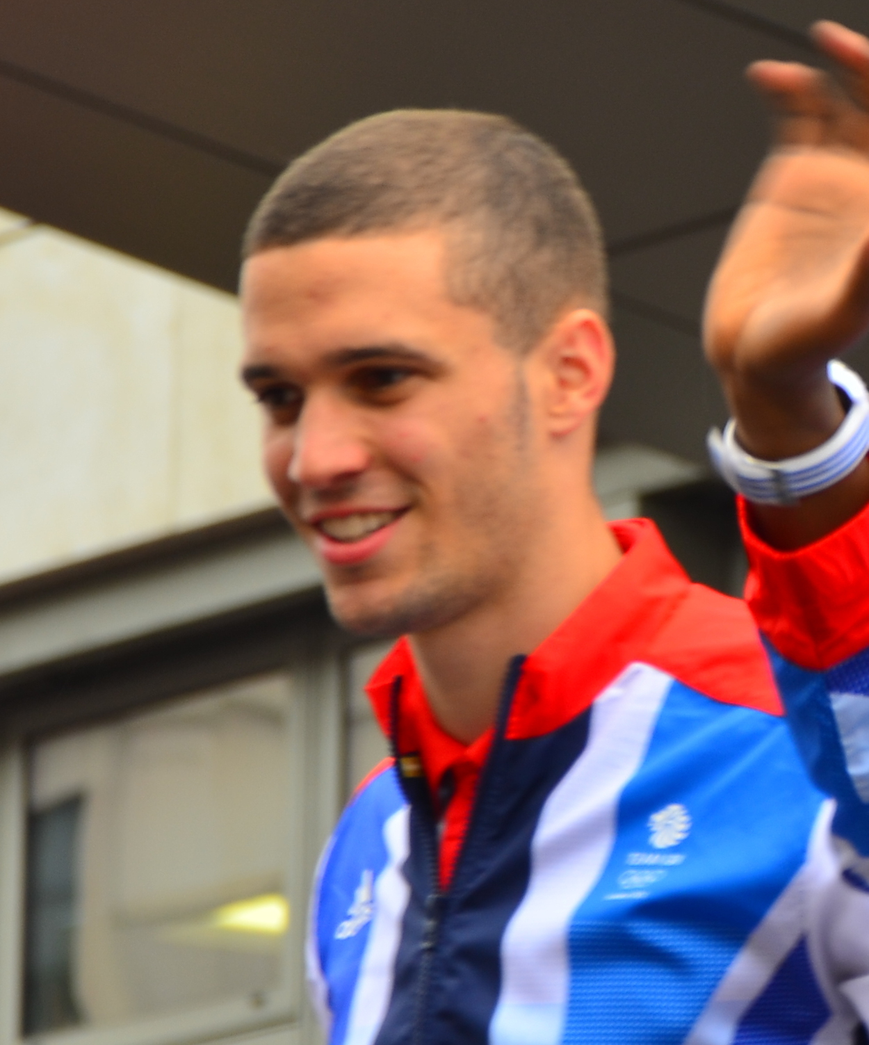 Danny Talbot, Conrad Williams 2012 Parade